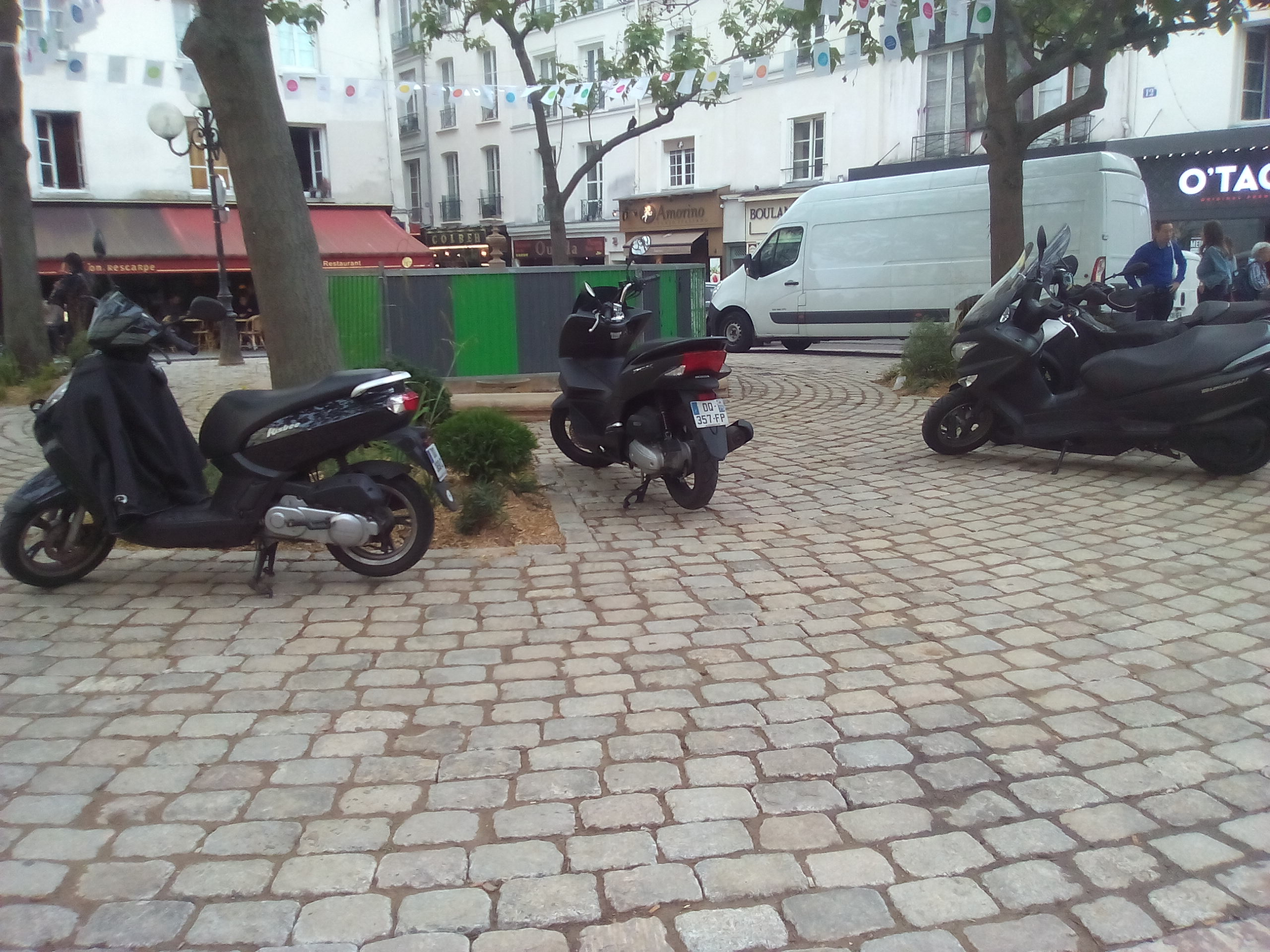 Place de la Contrescarpe, june 2017, after they fixed it